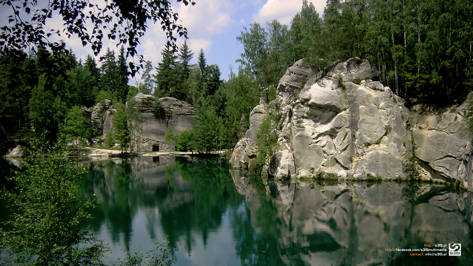 500px provided description: Adrspach, Lake View - HD Wallpaper [#landscape ,#forest ,#sea ,#nature ,#europe ,#poland ,#baltic ,#baltic sea ,#czech ,#adrspach ,#s35 multimedia ,#mellodeque ,#maciej chomicz]